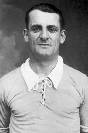 José Nasazzi, player and captain of the Uruguay national football team.